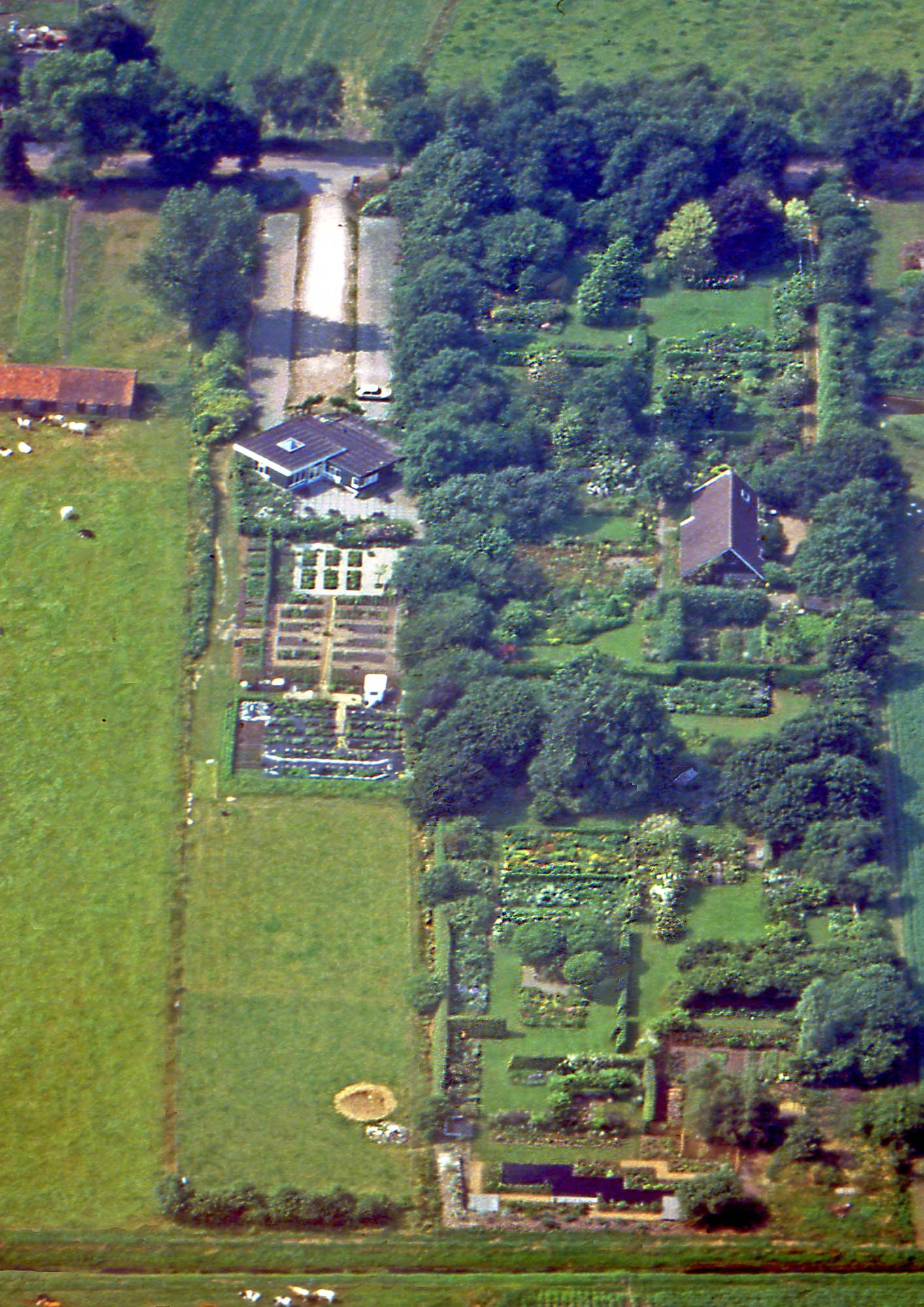 aerial photograph taken on 10 July 1995